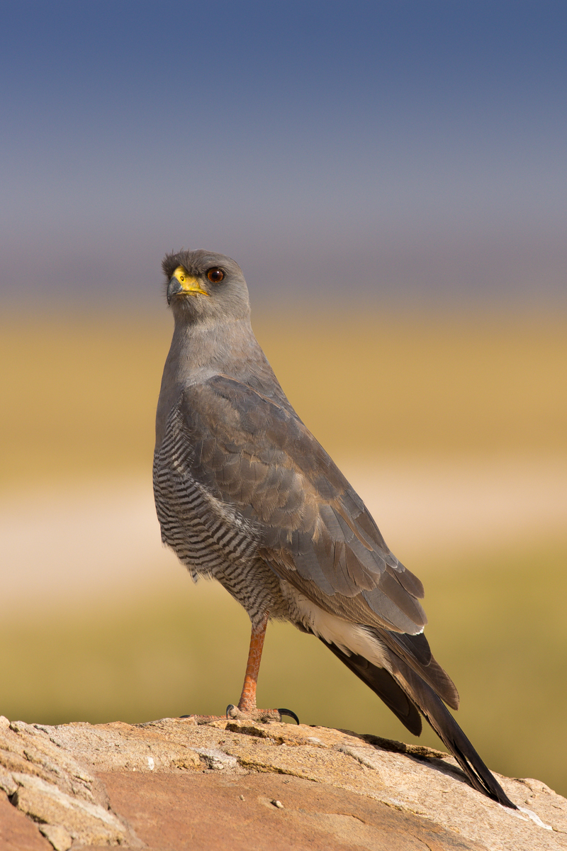 Male from Amboseli National Park